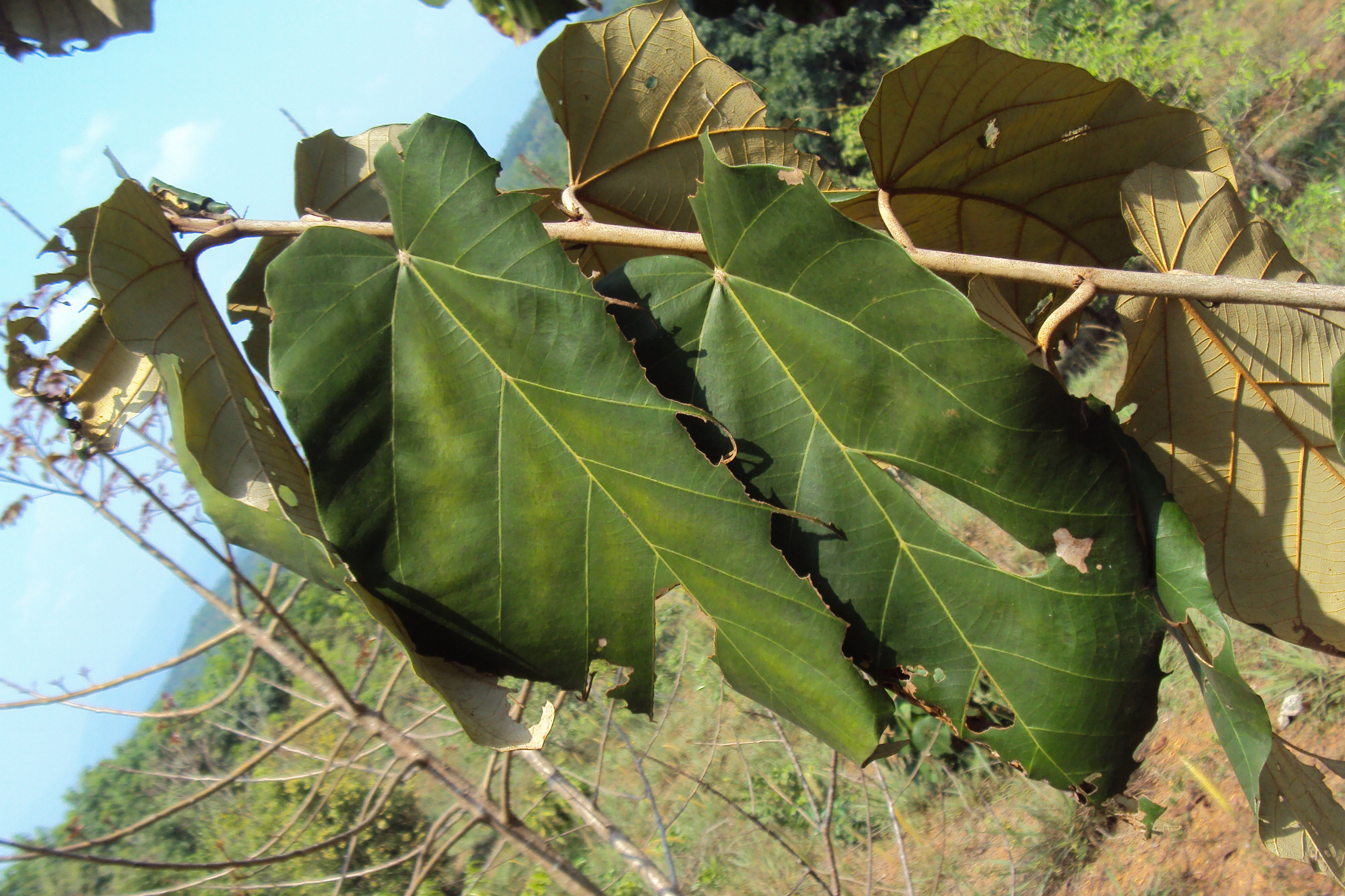 Pterospermum diversifolium